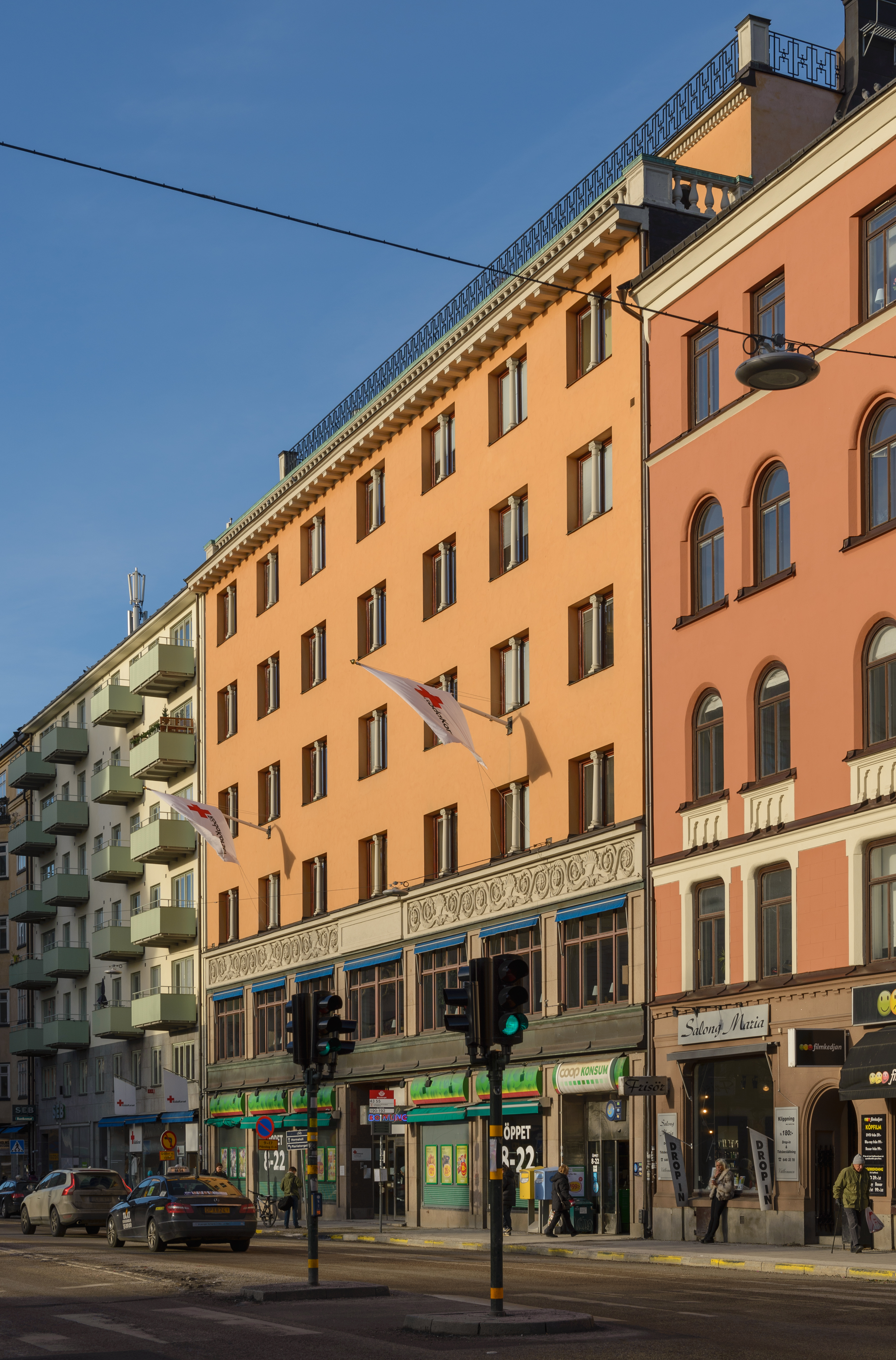 HQ of Swedish Red Cross. Hornsgatan 54, Södermalm, Stockholm.